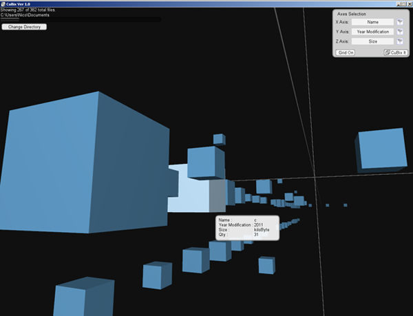 Screenshot of Cubix 3D Filer Version 1.0 showing a three dimensional view of cubes representing files with a certain file name, year of modification and size.